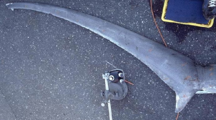 Common thresher (Alopias vulpinus) tail